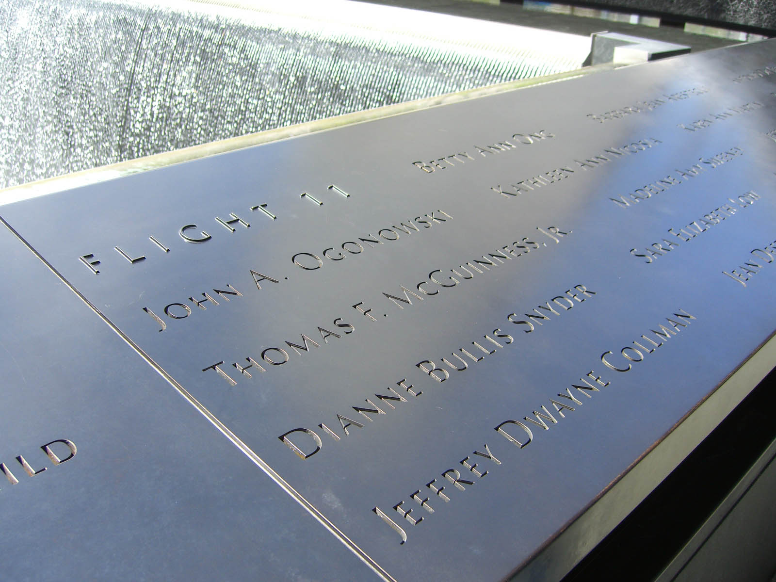 The names of passengers and crew of American Airlines Flight 11 are seen on Panel N-74 of the North Pool of the National September 11 Memorial in Manhattan, as seen on April 28, 2012. This photo was created by Luigi Novi. If you have any questions, you can contact me by sending me an email or leaving a note at the bottom of my talk page.